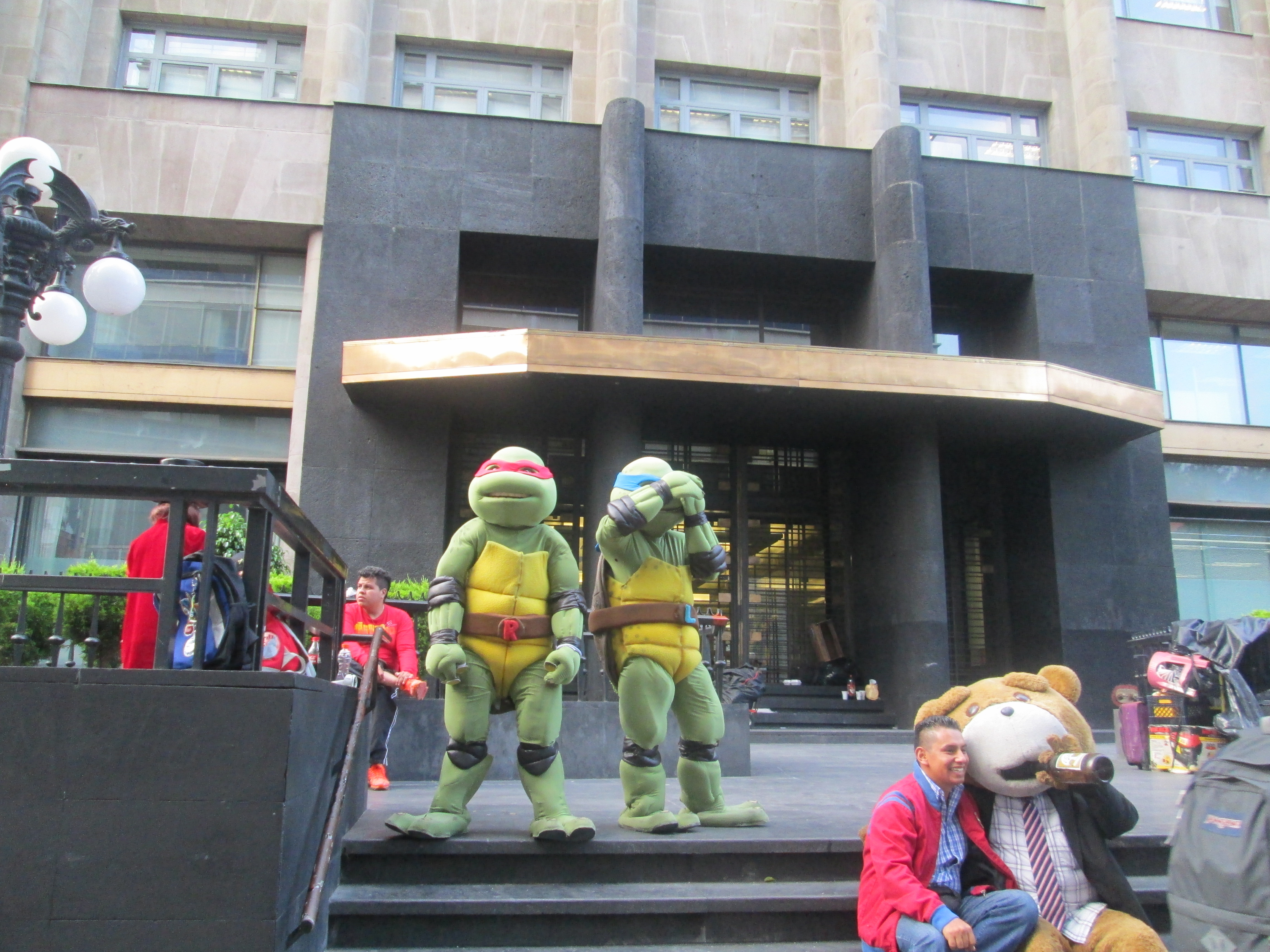 Ninja turtles in Mexico city